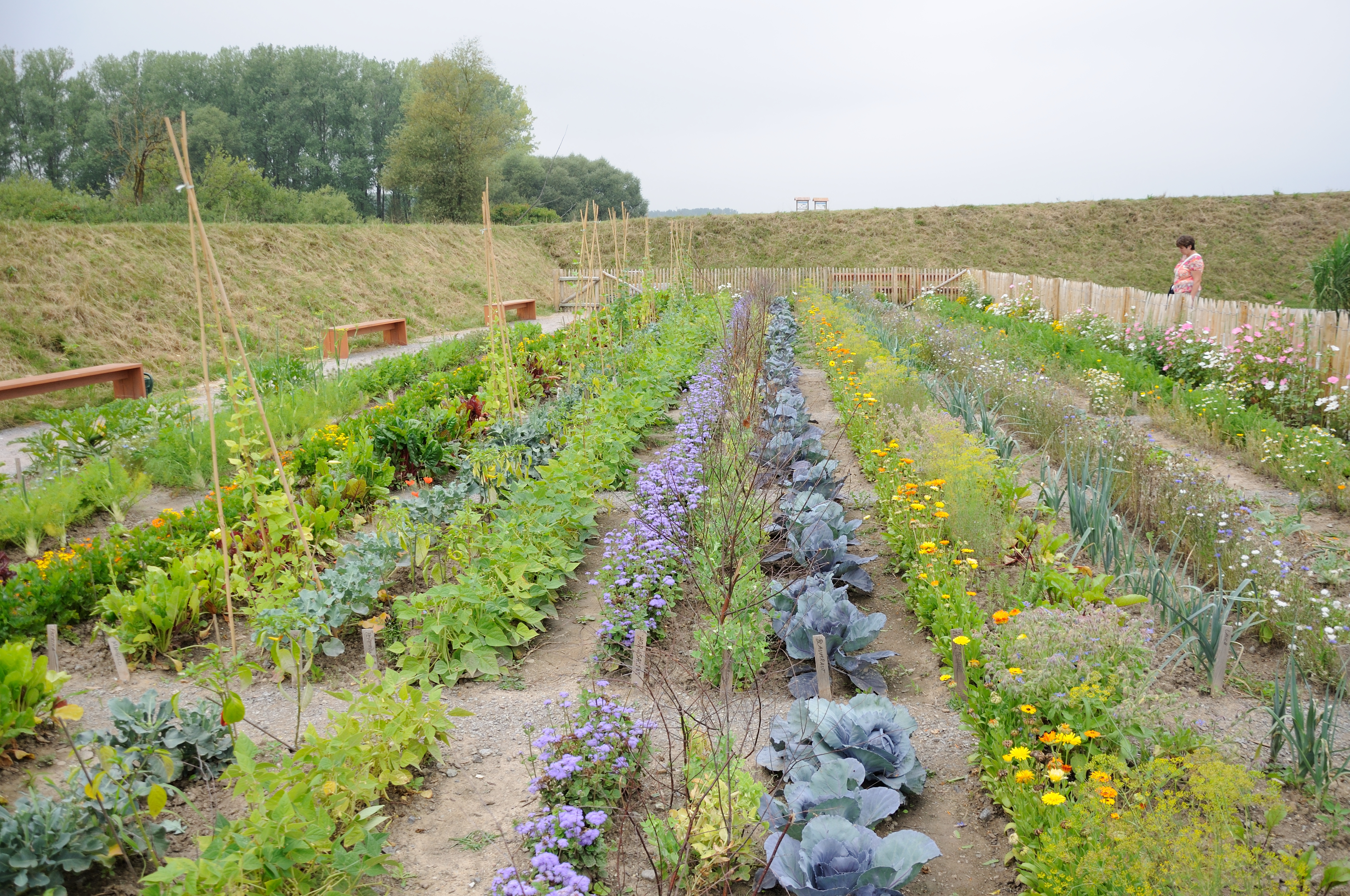 Germany, Bavaria, impressions from the Landesgartenschau in Deggendorf